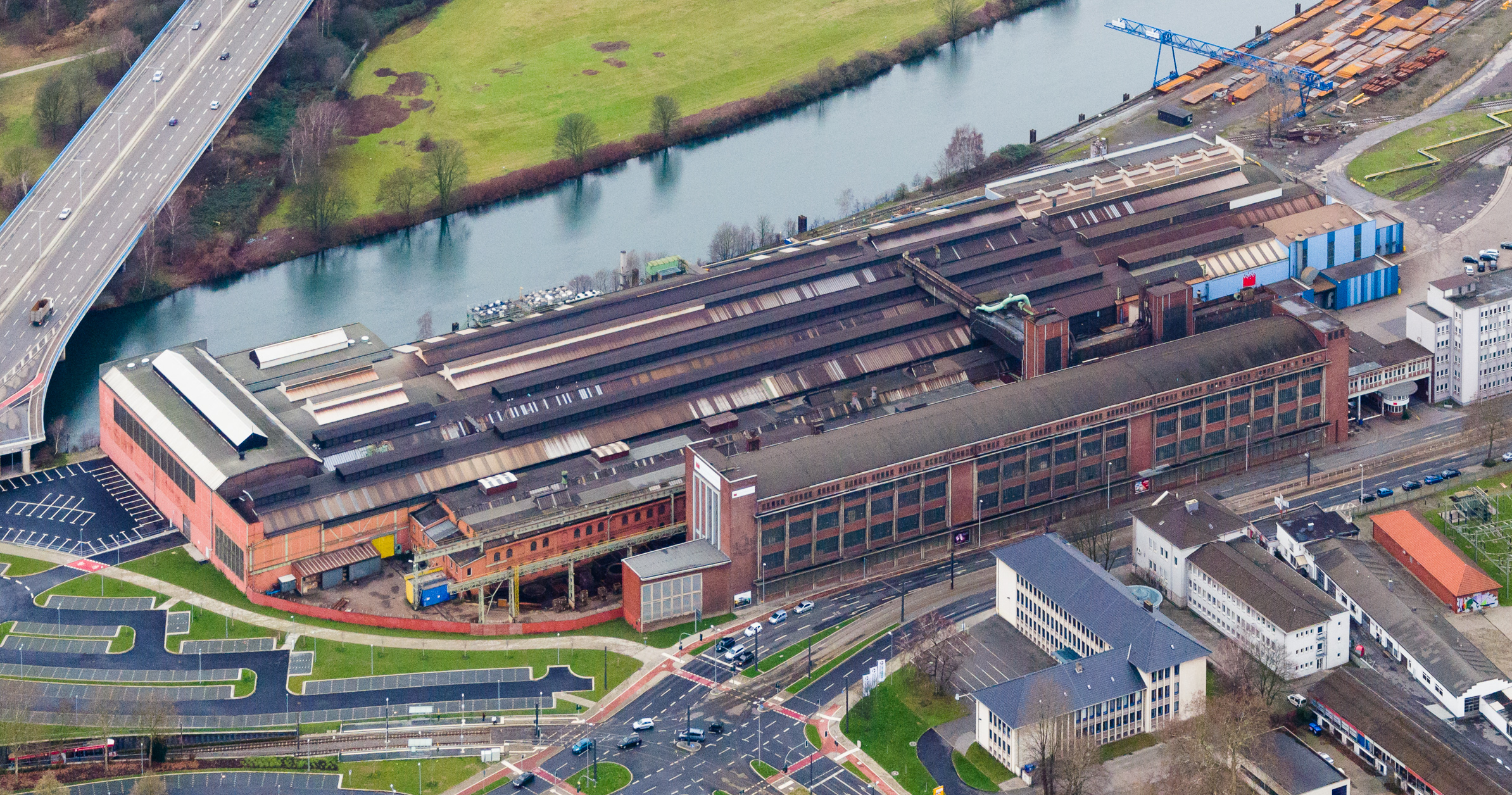 Aerial photo of Friedrich Wilhems-Hütte (metallurgical plant), view west